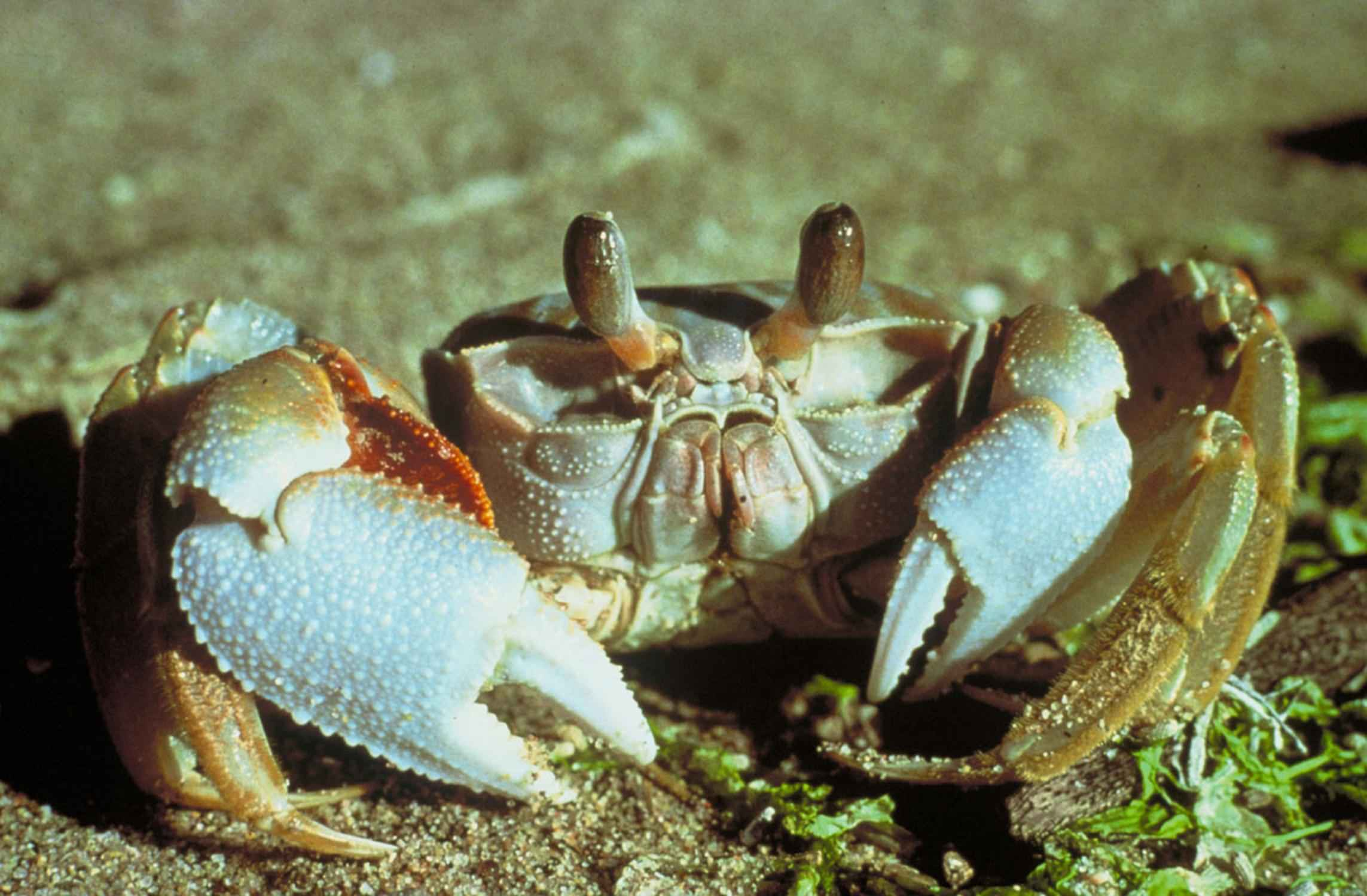 Image title: Ghost crab Image from Public domain images website